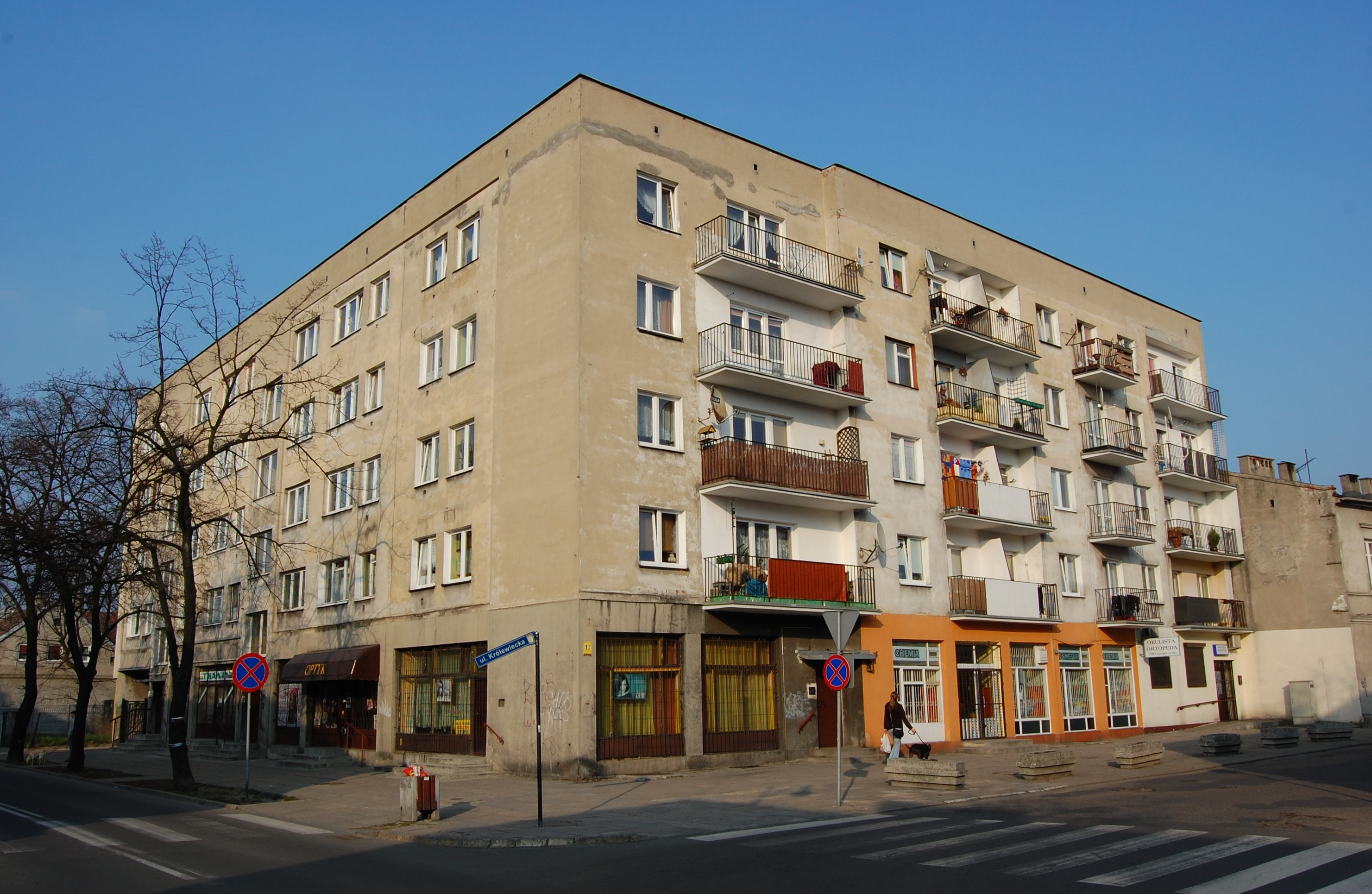 Krolewiecka 17 building nowadays (Wloclawek, Poland), the lot has been stolen from the Jewish community of Wloclawek by People's Republic of Poland, during WWII the Germans burned New Synagogue on Krolewiecka 17